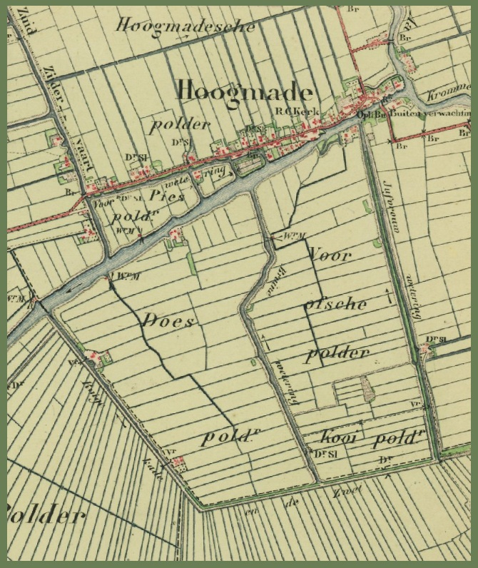 Hoogmade and some surrounding polders (Prov. South Holland, Netherlands). Part of a Military Topographic Map (Bonneblad-color) from 1876, sheet Leiden. Map number 422 of the Land Registry (as indicated on watwaswaar.nl ,a site with historical information about every place in the Netherlands).